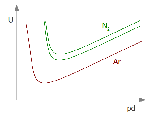 Paschen's curves